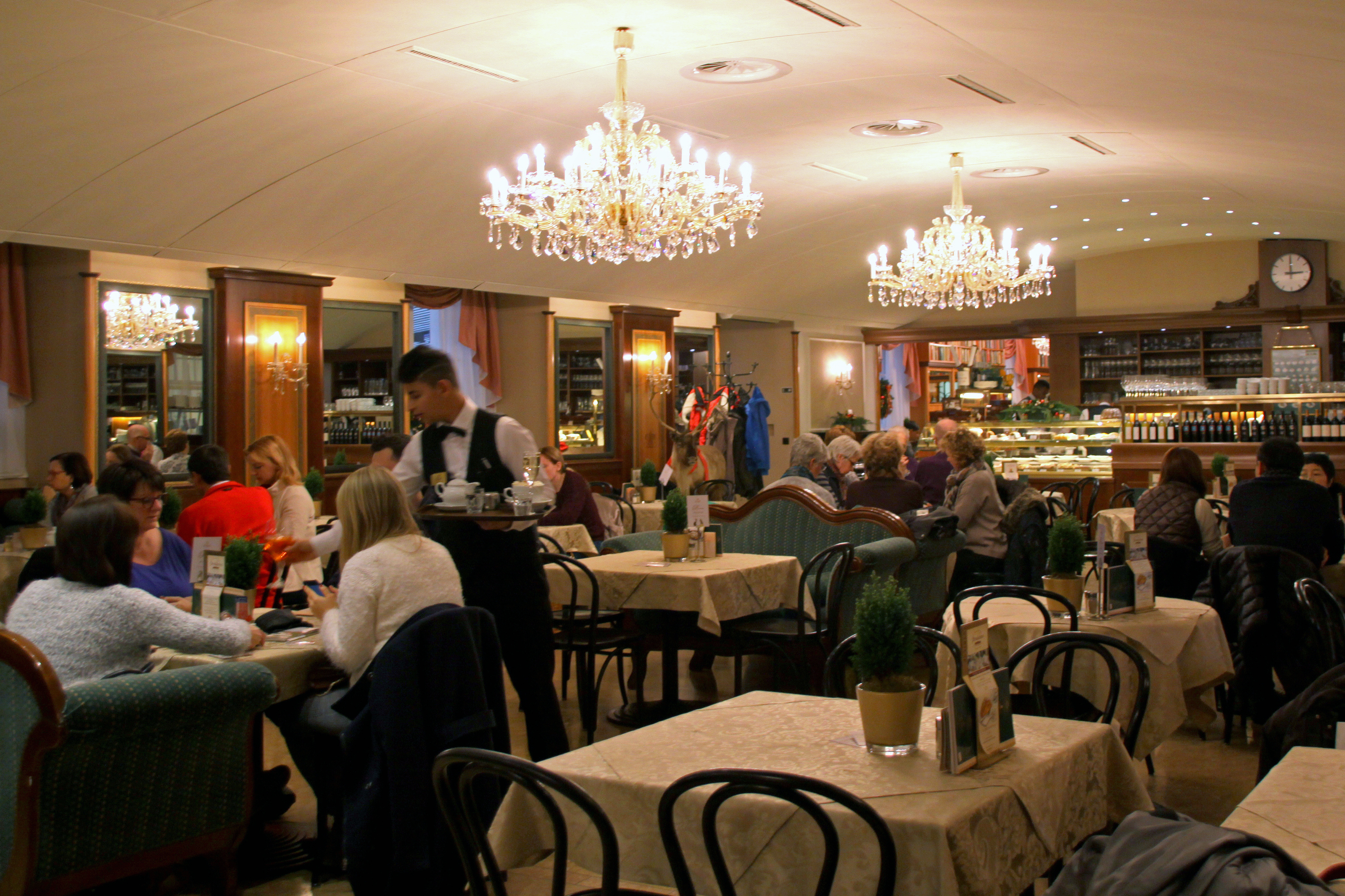 Inside the Café Restaurant Residenz at Schönbrunn Palace, Vienna.